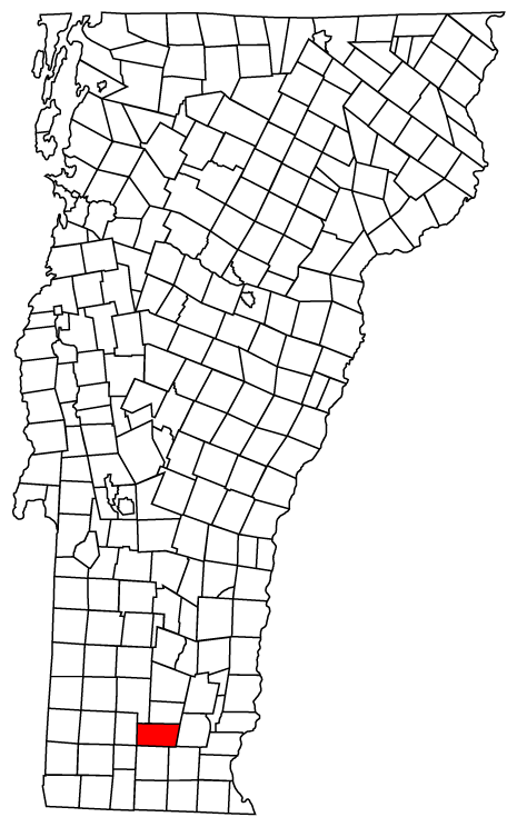 Description: Map of Vermont towns with Dover highlighted Source: Map created by Jared C. Benedict on 26 March 2004. Copyright: © Jared C. Benedict.